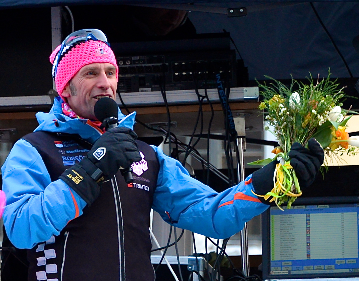 The speaker Roberto Vacchi at Royal Palace Sprint in Stockholm March 20, 2013